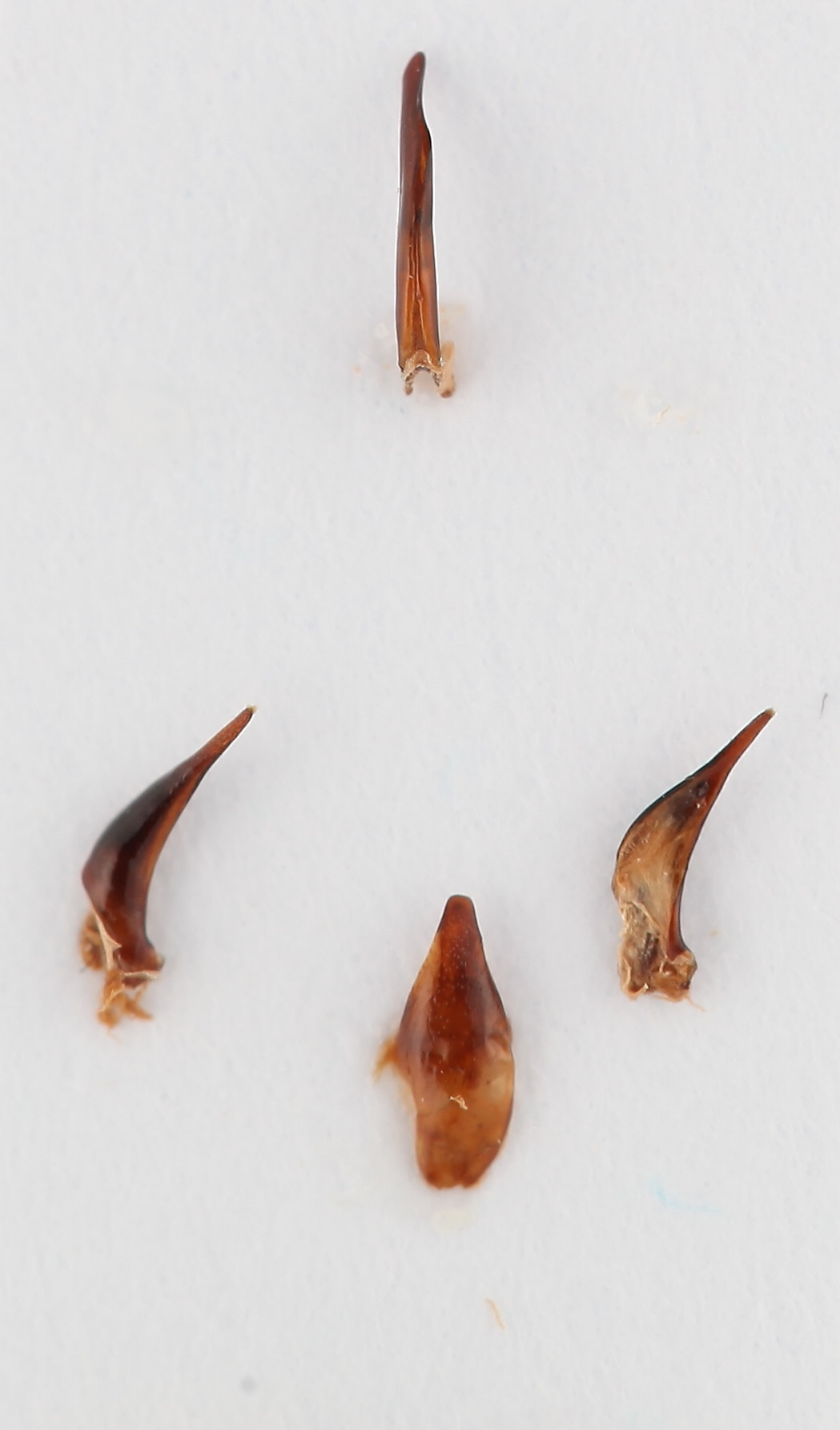 Genitalia of a Amiphizoa insolens